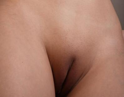 Vulva